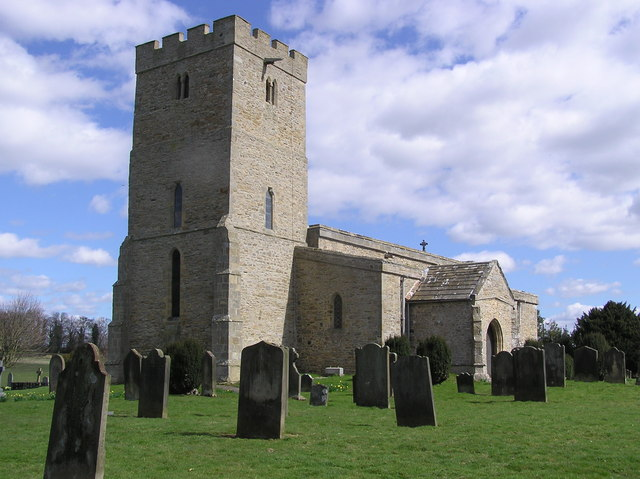 St. John the Baptist : Stanwick.St.John. The present Church dates from C.1200, Anthony Salvin (Architect) undertook restoration work in 1868. He rebuilt the north nave wall, the south arcade and the chancel arch. He also re-roofed the church and provided new seating throughout.